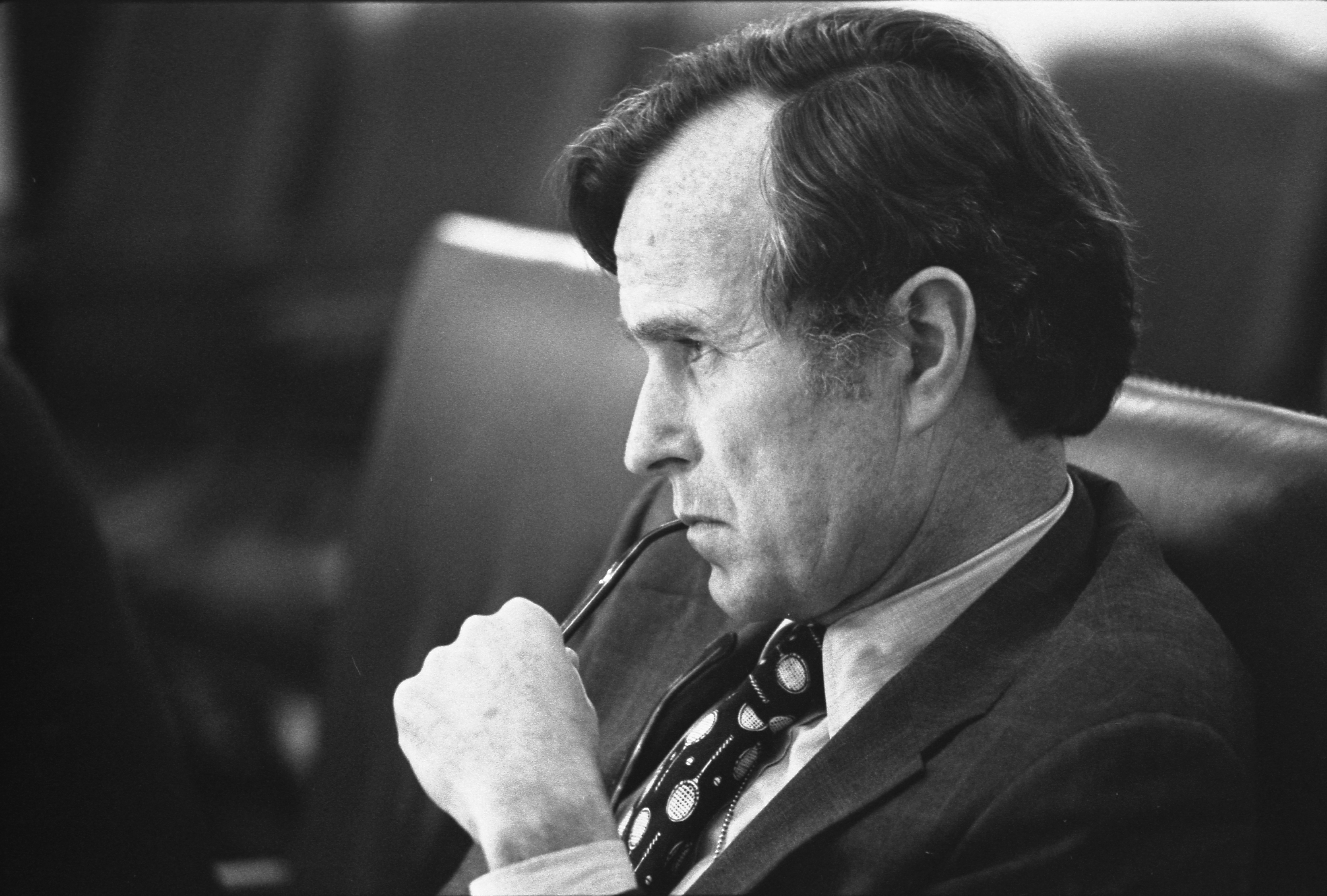 This photograph depicts Central Intelligence Agency (CIA) Director George H.W. Bush listening intently during a meeting following the assassinations of Ambassador to Lebanon Francis E. Meloy, Jr. and Economic Counselor Robert O. Waring in Beirut, Lebanon.